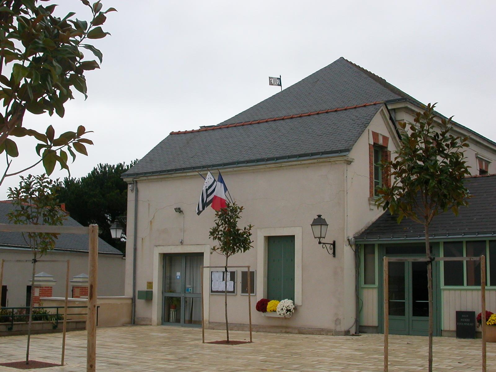 Town hall of Le Fresne-sur-Loire